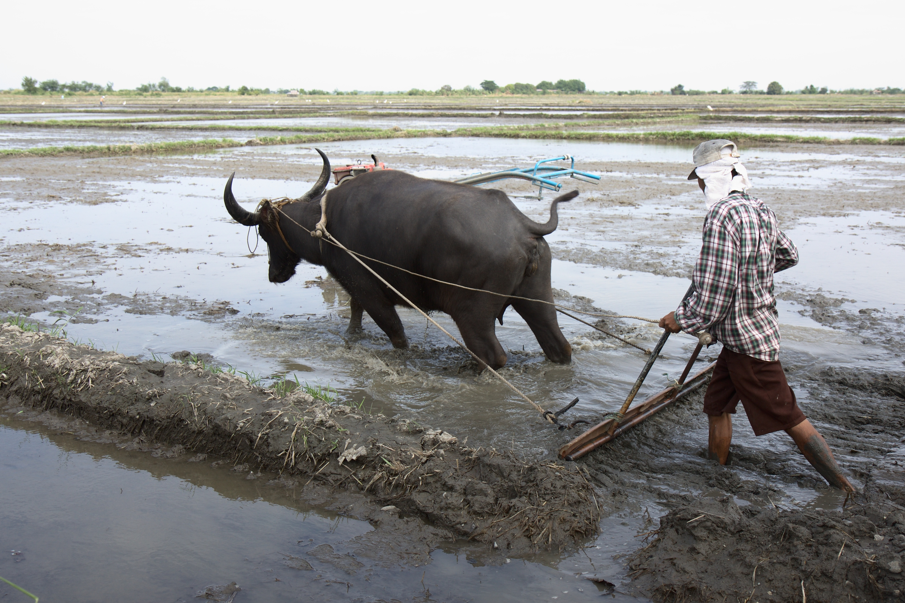 Preparation of rice fields